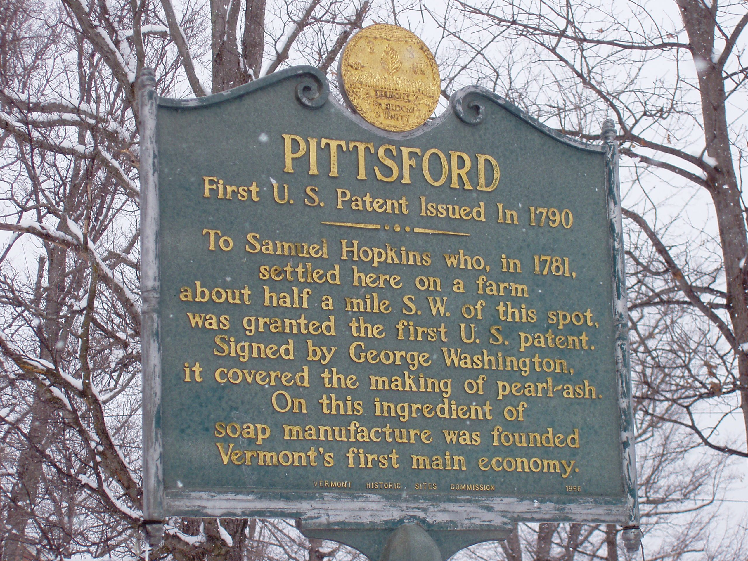 Plaque in Pittsford, Vermont, honoring Samuel Hopkins, a local farmer, who received the first United States patent in 1790. Photography taken by me, March 2006.